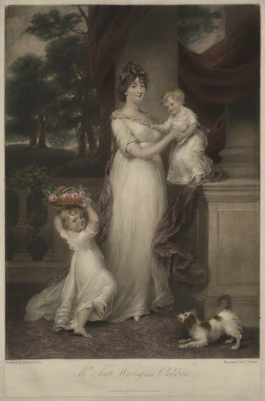 Portrait of Maria Scott-Waring, second wife of John Scott-Waring (1747–1819), English politician.